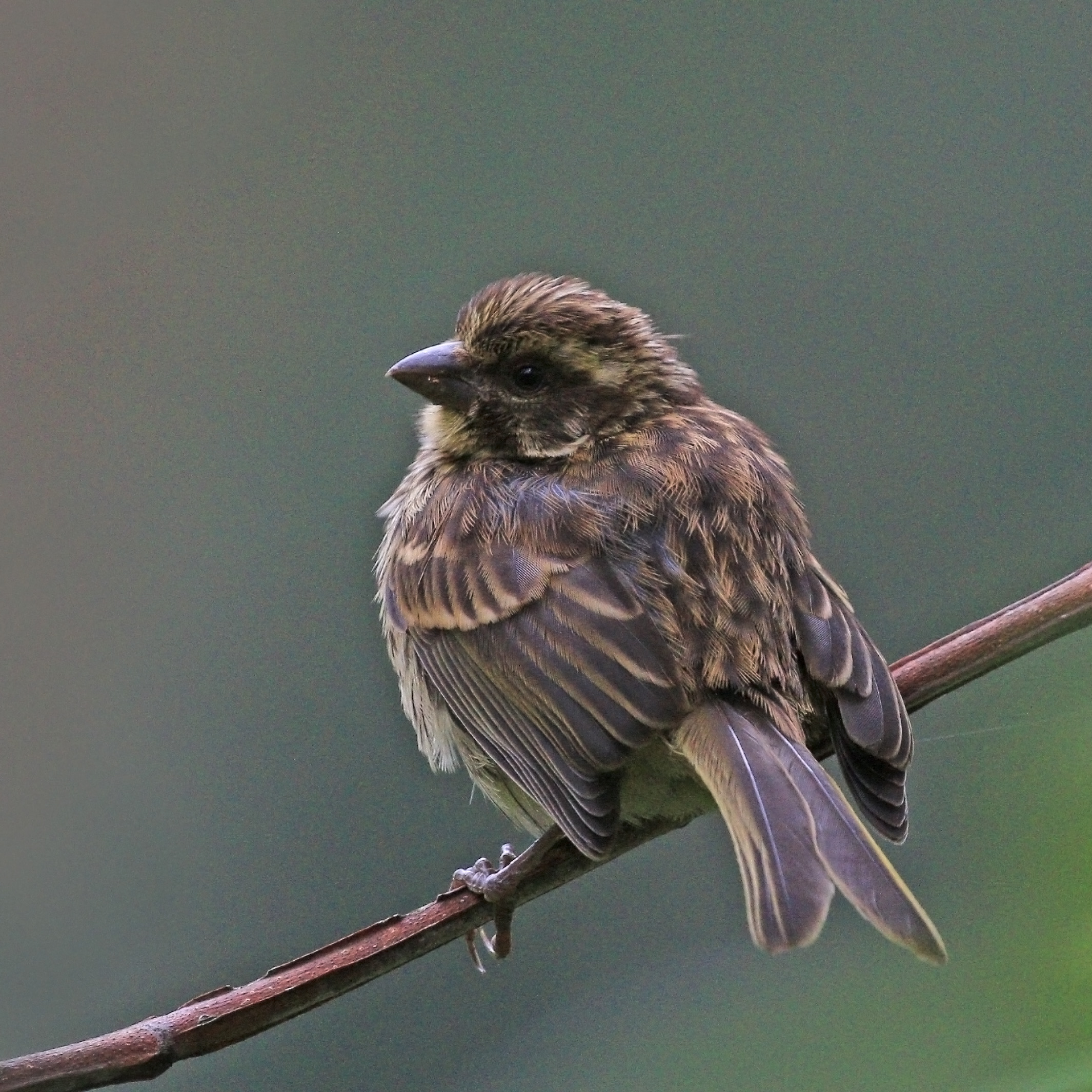 Streaky seadeater (Serinus striolatus graueri) juvenile, Sabyinyo Silverback Lodge, Rwanda